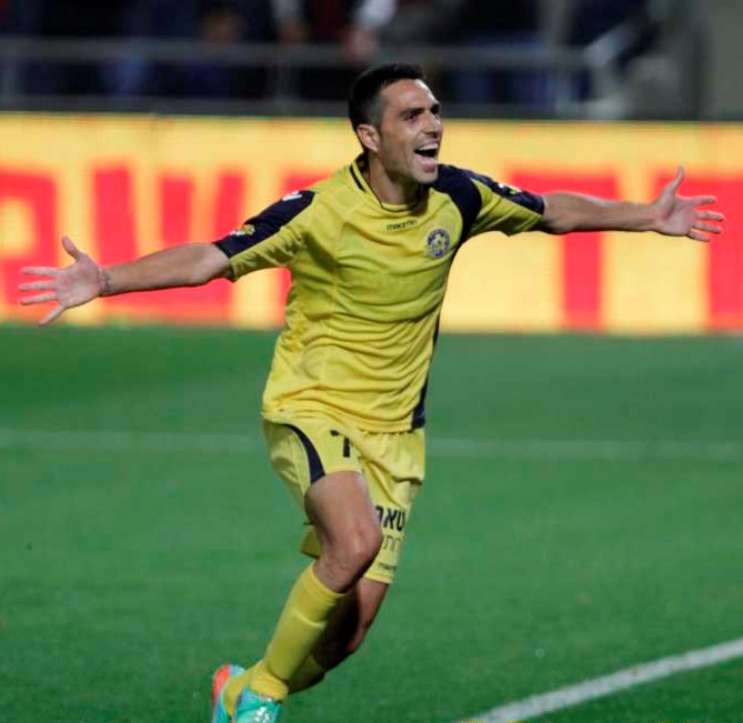 Maccabi Tel Aviv player Eran Zahavi celebrating.